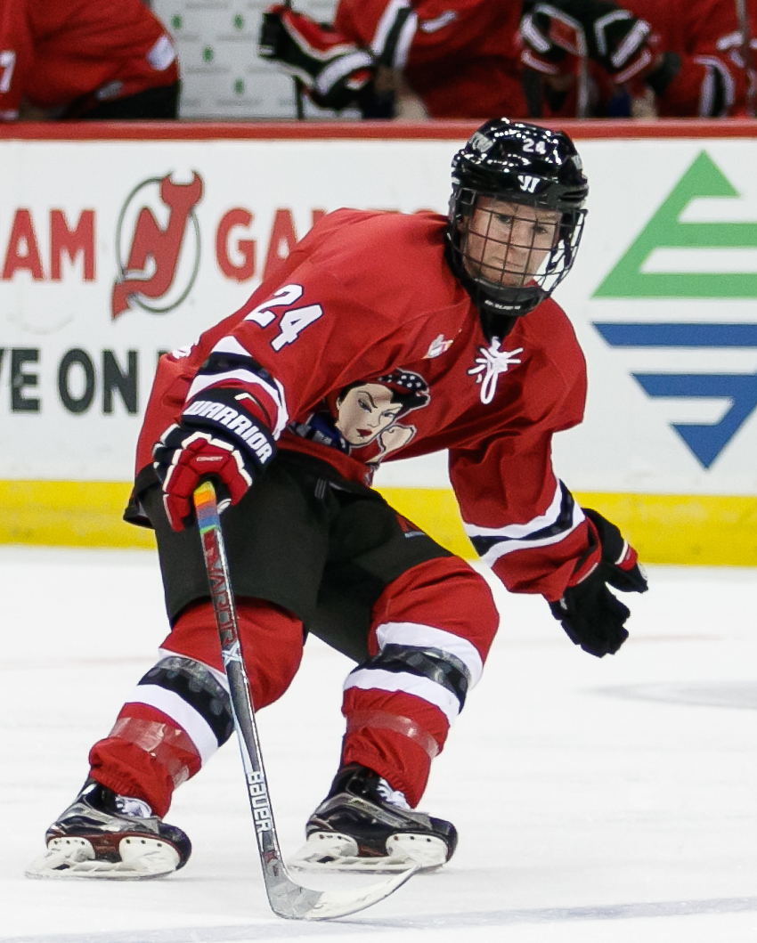 Harrison Browne playing for the New York Riveters in 2017